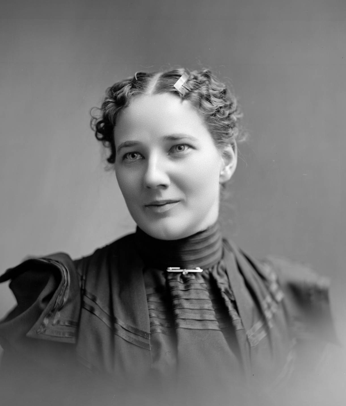 Portrait of Adella Brown Bailey at 39 years of age